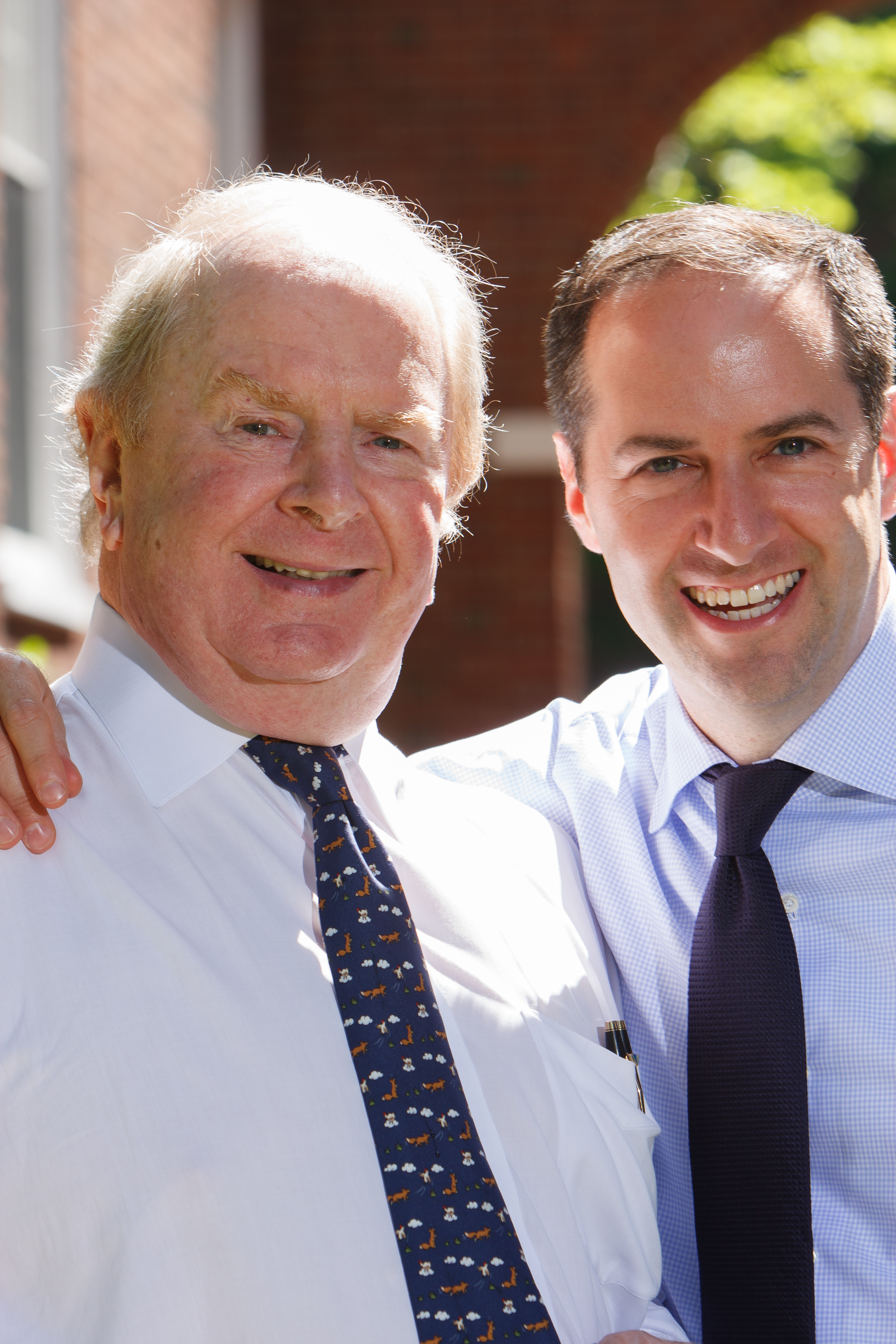 Howard Stevenson & Eric Sinoway on the Harvard Business School campus (circa 2012)